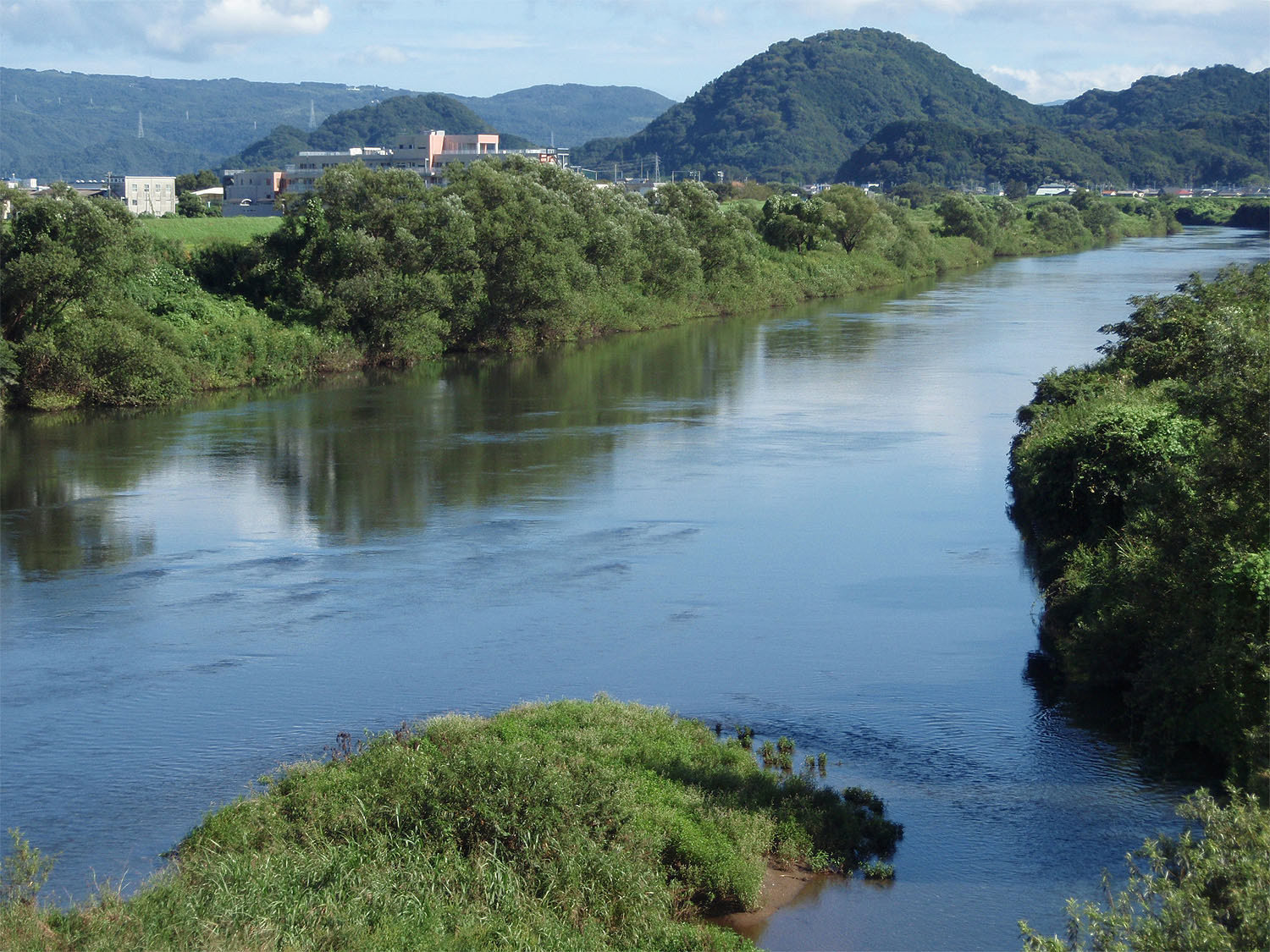 Downstream of Kano River in the east part of Shizuoka Prefecture, Japan. Shot on Tokura Bridge in Shimizu.